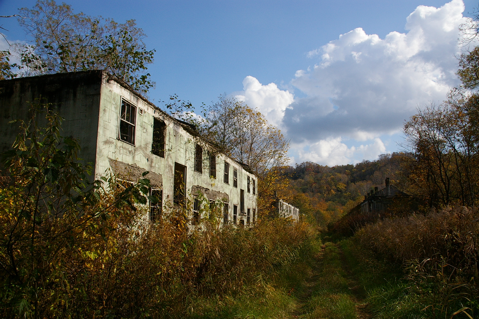 The ruins colliery house in Showa coal mine, Numata town hokkaido.